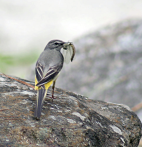 Grey Wagtail Motacilla cinerea in in Kullu District of Himachal Pradesh, India. Very much liked by the trekkers on the trek due to its beautiful yellow colours. Summers & breeds in Himalayas, generally seen singly along rocky streamlets & trickles, feeding on insects, sometimes capturing midges in the air.